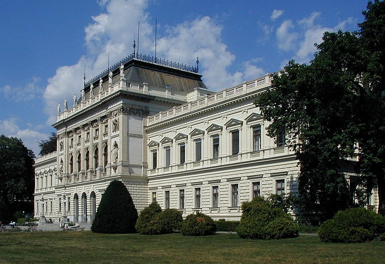 Main front of the Karl-Franzens-University of Graz. Picture taken and uploaded by Dr. Marcus Gossler.